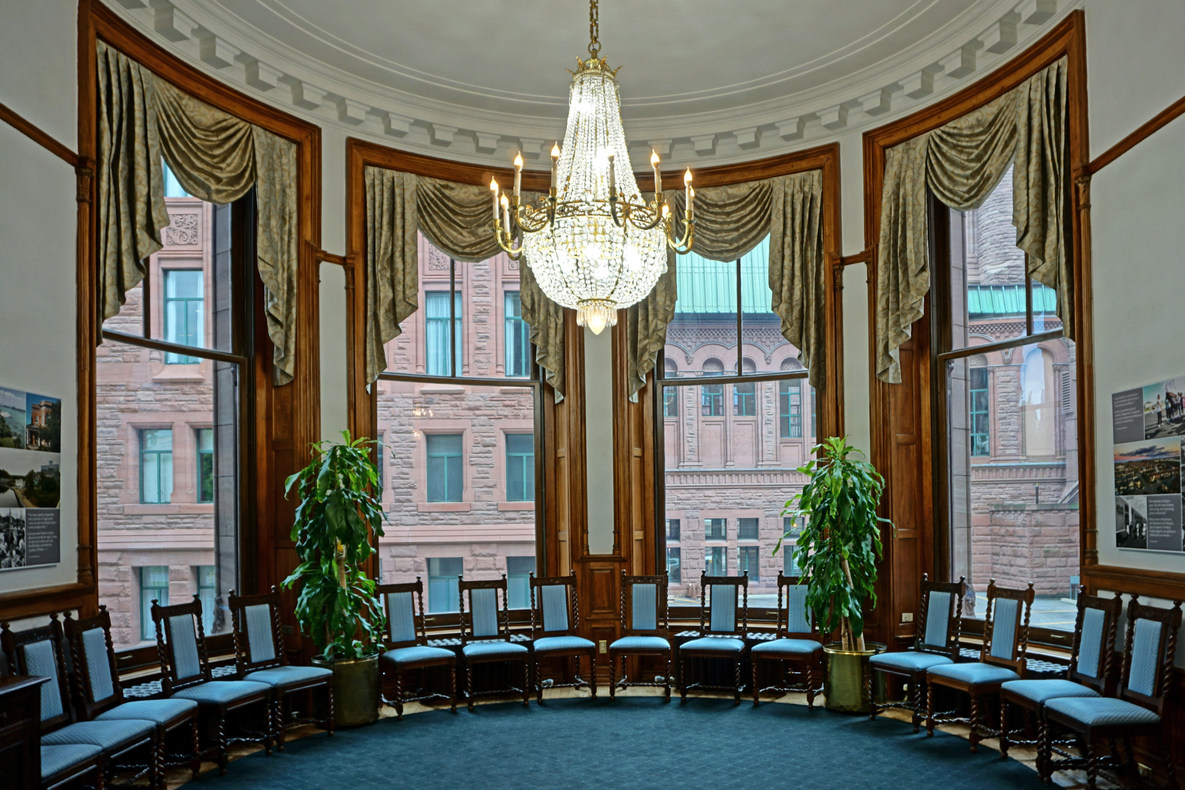 The viceregal suite in the Ontario parliament building, Toronto.